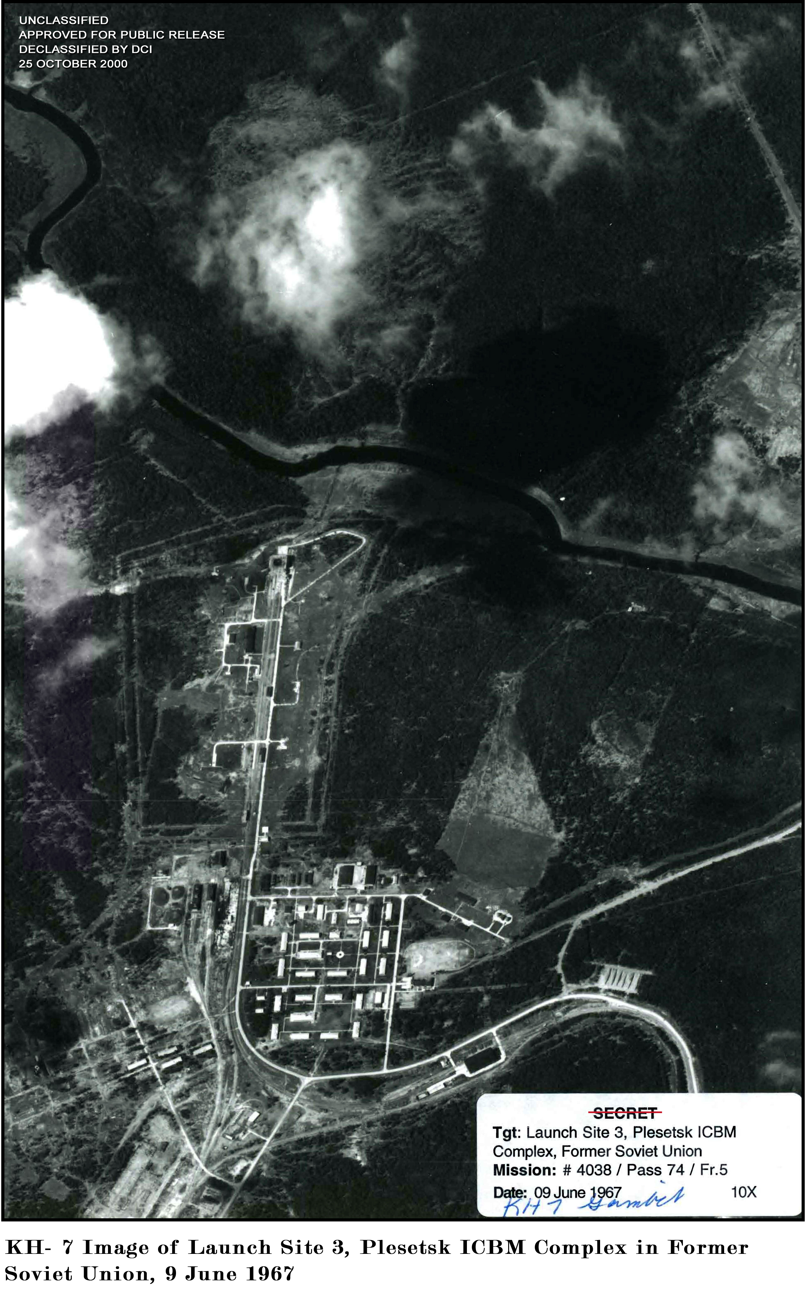 Launch site 3, Plesetsk ICBM complex. 1967.